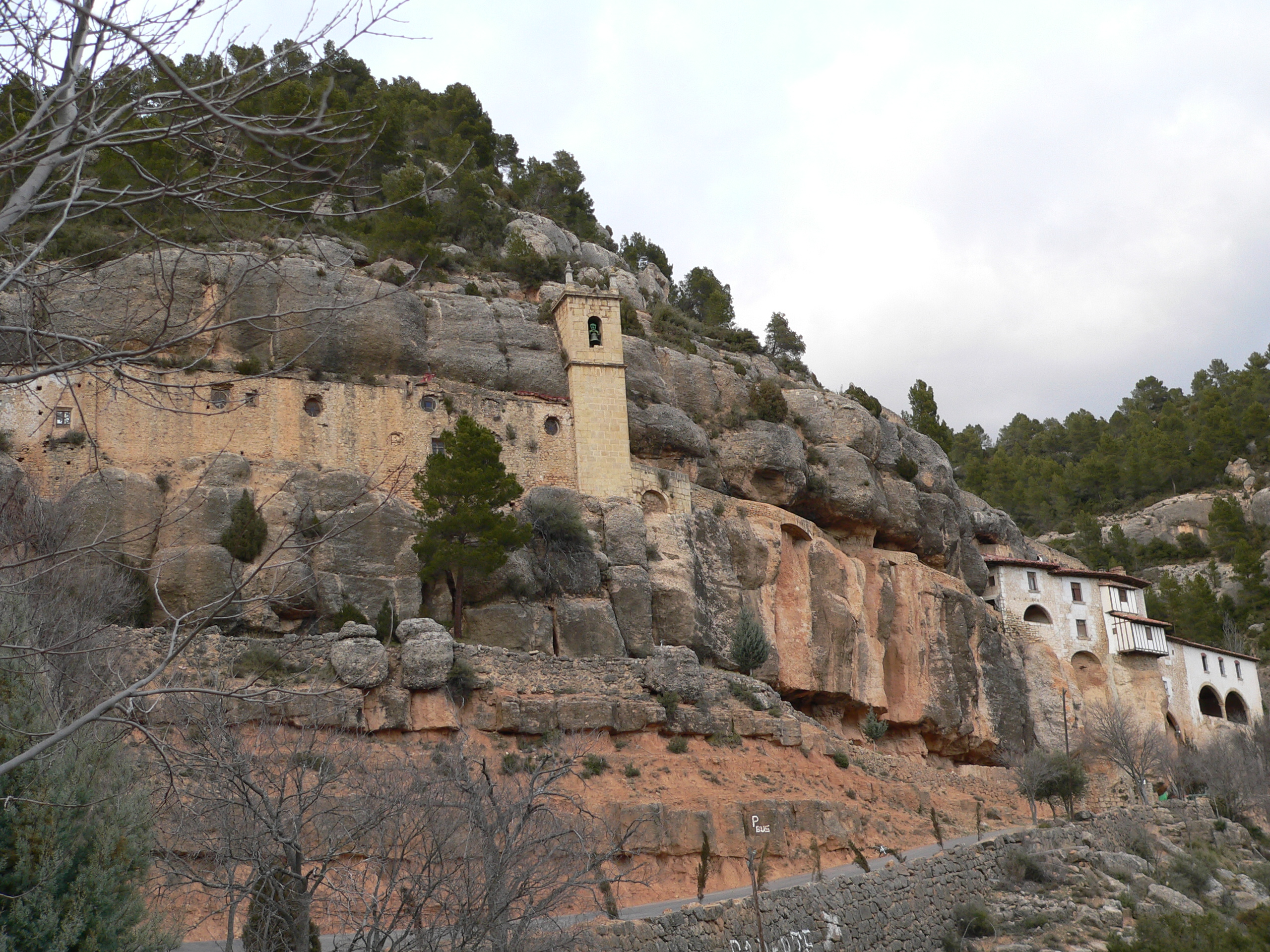 Sanctuary Santuario de la Virgen de la Balma, Zorita del Maestrazgo, Castellón